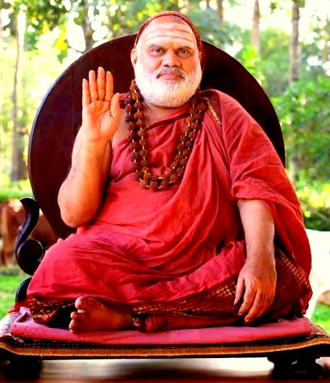 Jagadguru Shri Bharathi Teertha Mahaswami.